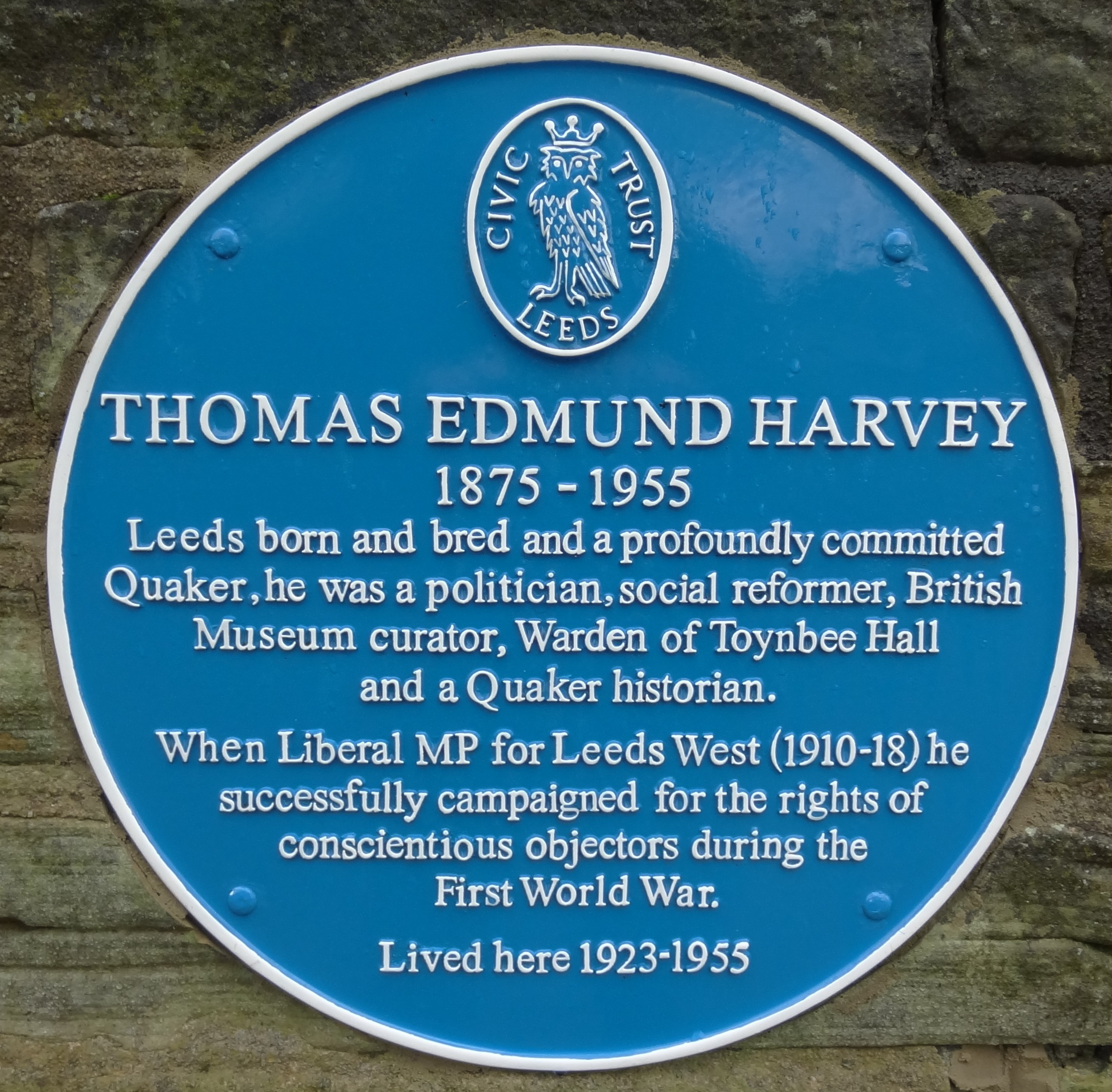 Plaque commemorating Thomas Edmund Harvey, 1875-1955